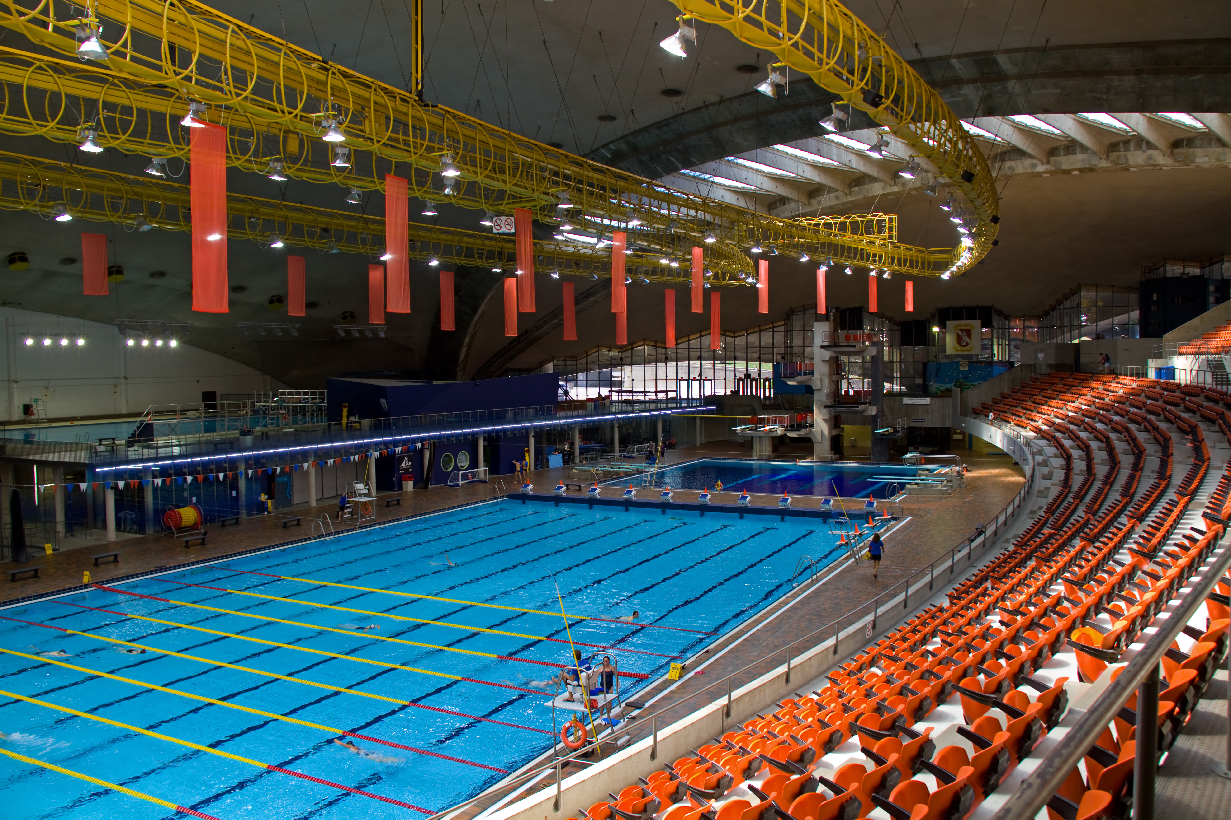 Montreal Olympic Pool 1